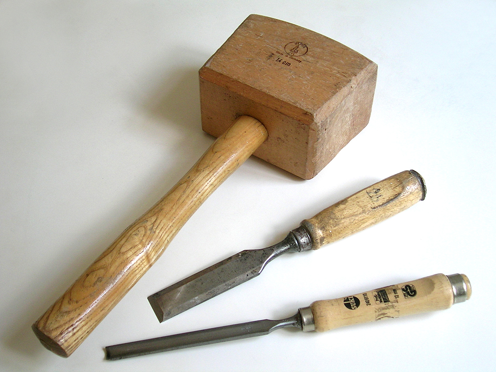 A wooden Mallet and Chisels.